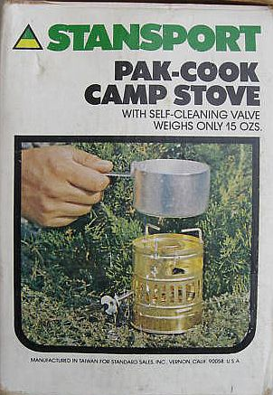 Box for the Stansport "Pak Cook 235" portable stove